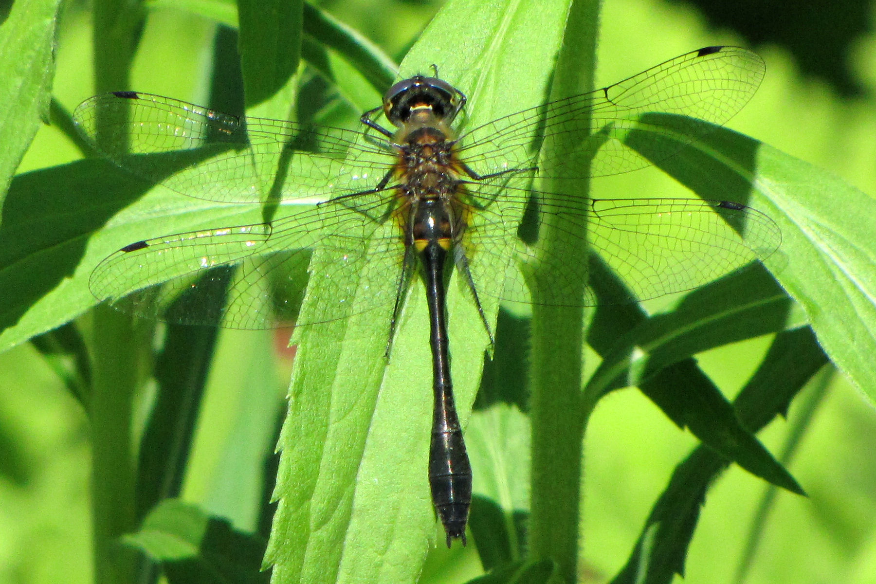 Female Racket-tailed Emerald (Dorocordulia libera) photographed in the Mer Bleue Conservation Area, Ottawa, Eastern Ontario, Canada